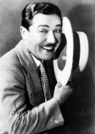 This is a pre-1922 photograph of actor Monty Banks.